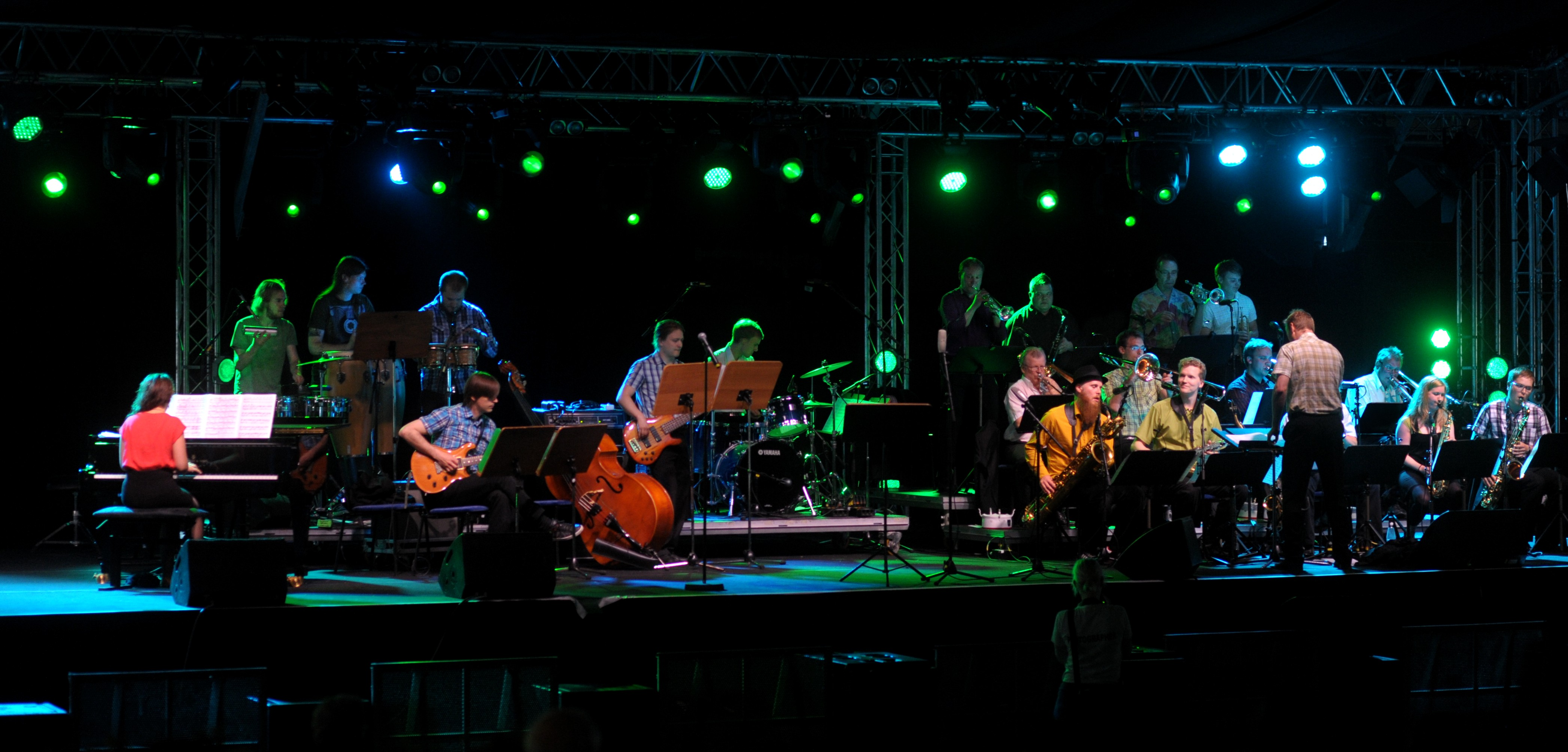 Jyväskylä Big Band in Imatra, Finland 2012